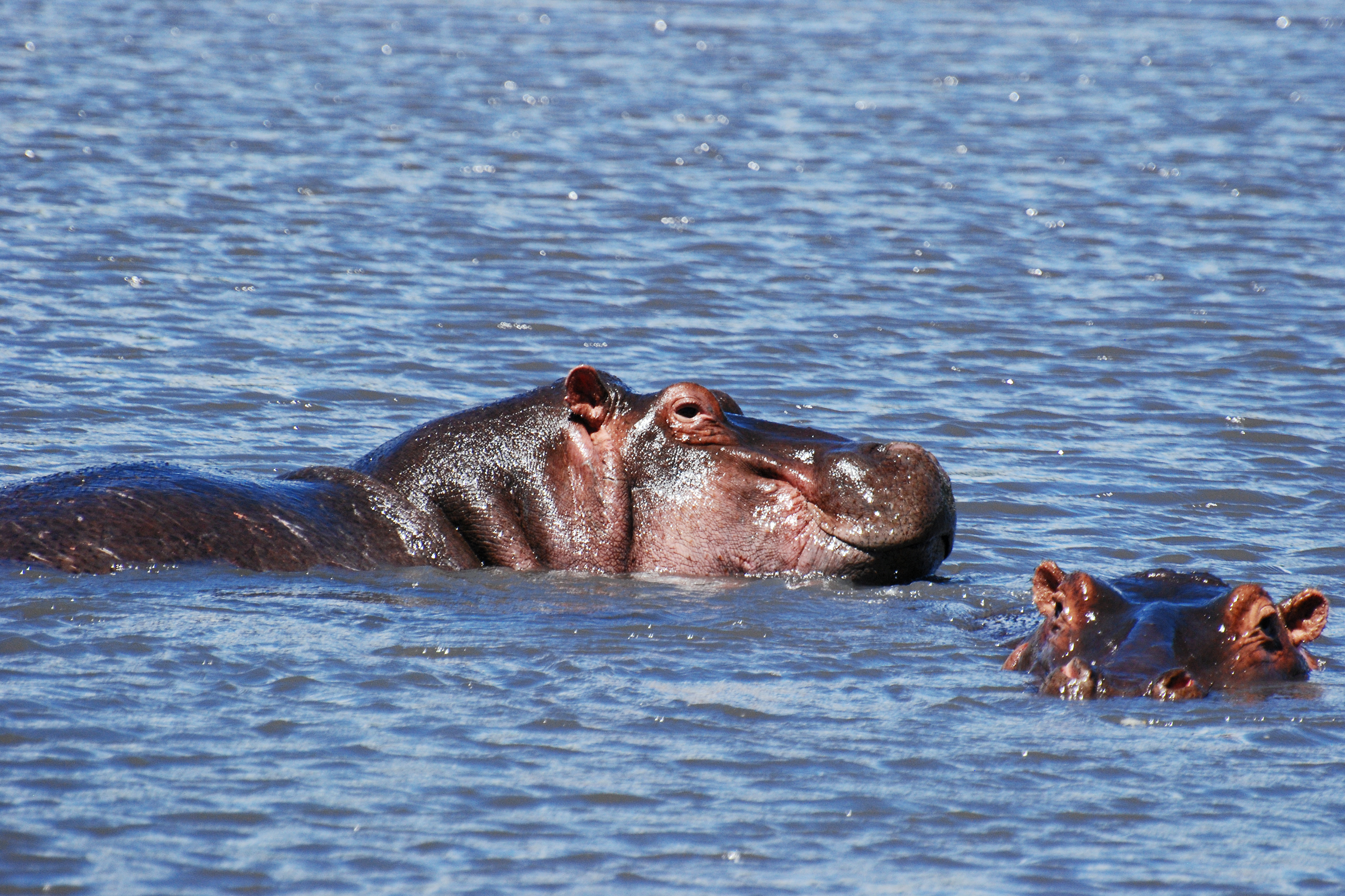 The hippopotamus (Hippopotamus amphibius), or hippo, from the ancient Greek for "river horse" , is a large, mostly herbivorous mammal in sub-Saharan Africa